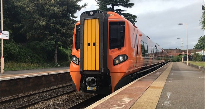 Class 196 101 on a test run between Tyseley L.M.D and Hereford. Seen here passing through Malvern Link station.